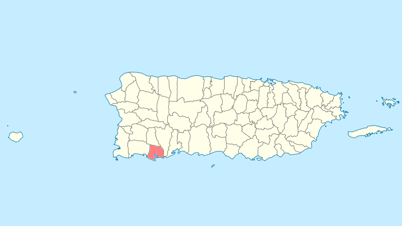 Municipal locator of Puerto Rico